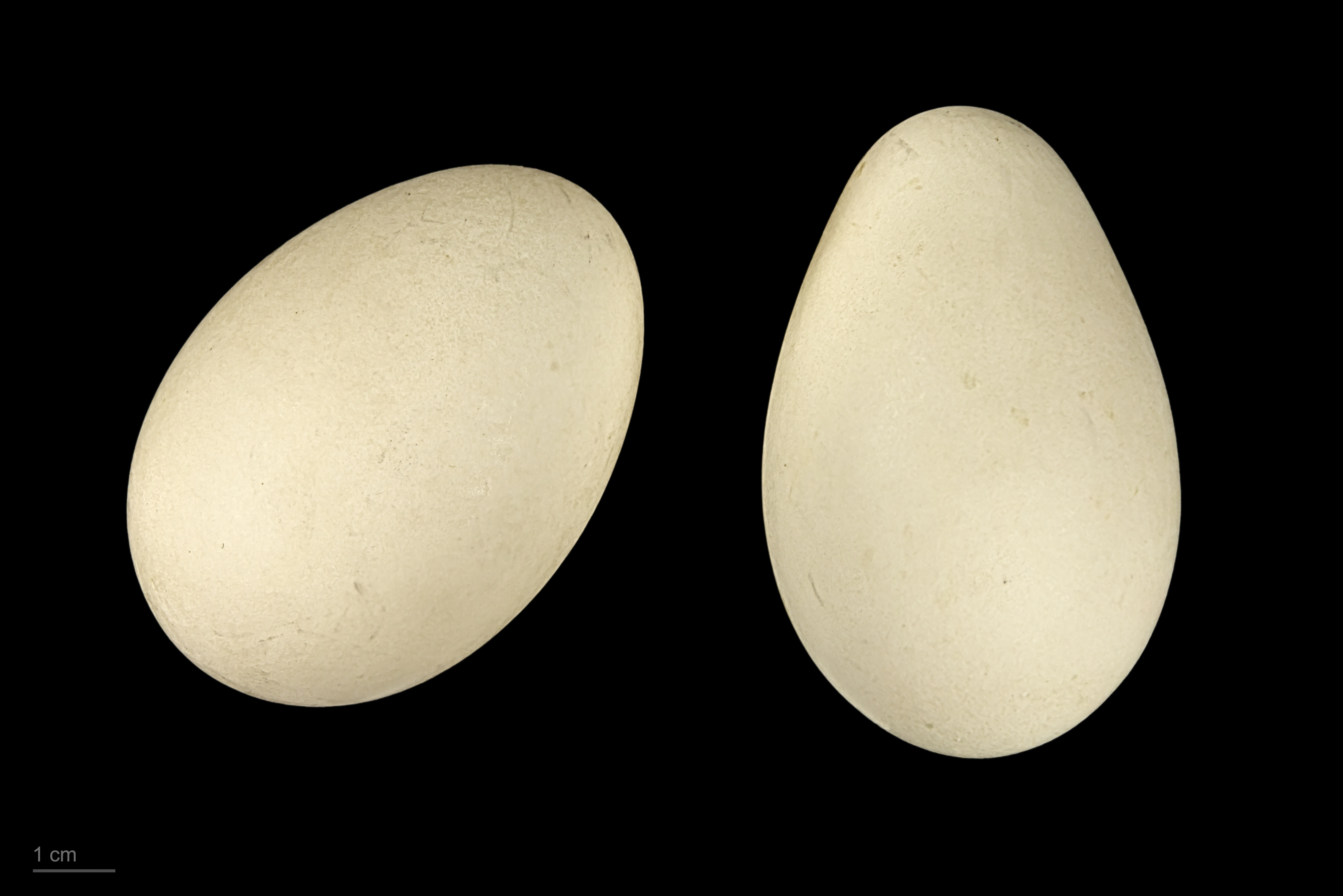 Eggs of common scoter Two specimens of the same spawn ; collection of Jacques Perrin de Brichambaut.